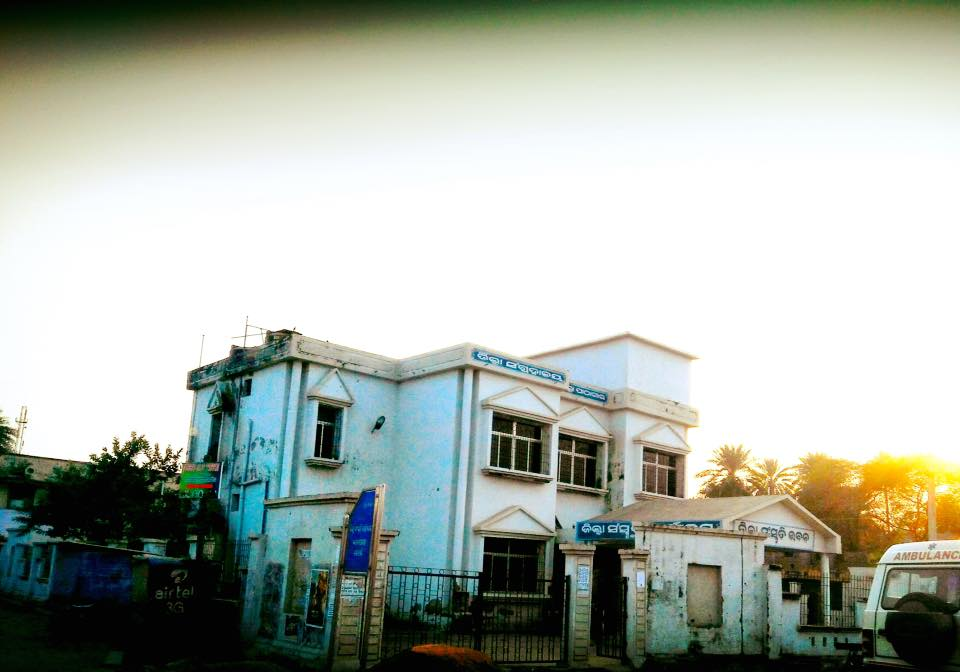 District Museum Bhawanipatna